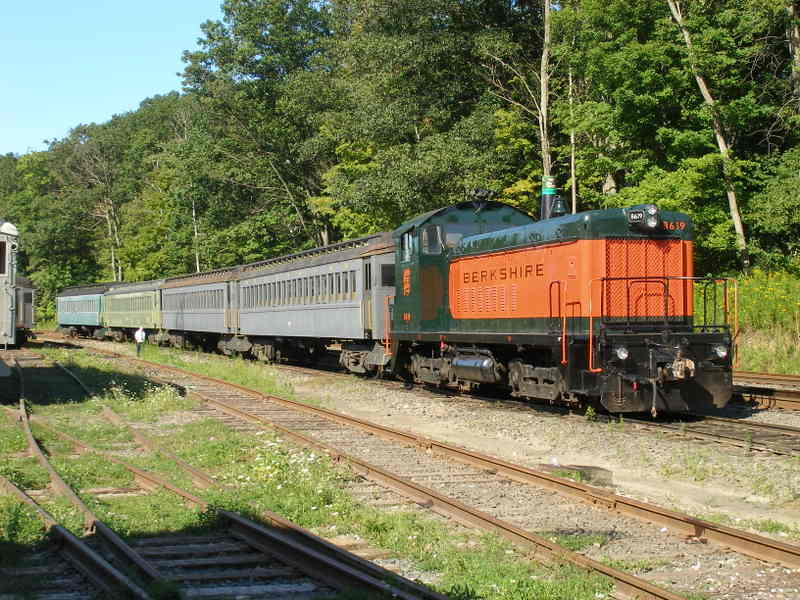 The Berkshire Scenic train in the yard before going to Lenox Station to pick up passengers.